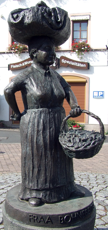 Fraa Bohnebeitel (Ms bean bag): Mombach carnival memorial gifted by Genobank Mainz eG in memory of the 100 years jubilee in 1996 and the Mombacher Carneval Verein 1886 e.V. – Die Bohnebeitel – in memory of the 111 years jubilee”